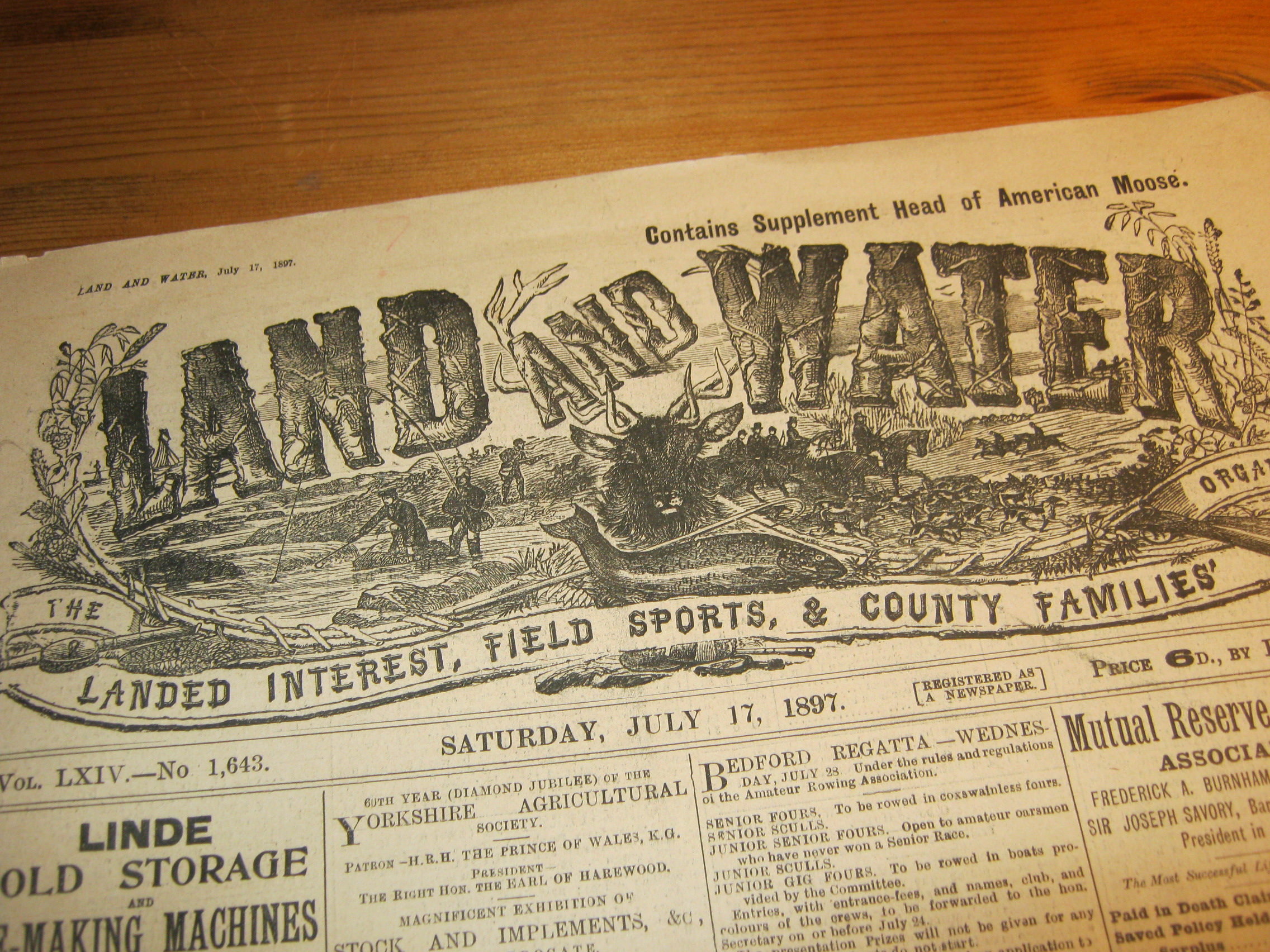 Header bar from Land and Water newspaper, London, Saturday 17th July 1897